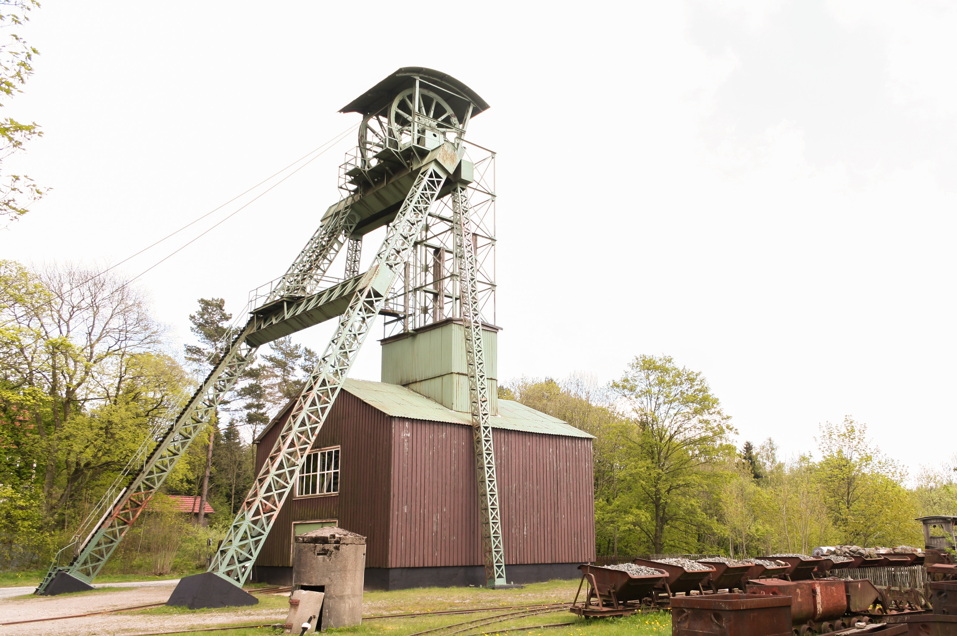 Steely headframe of Ottiliae shaft; Clausthal-Zellerfeld, Lower Saxony, Germany. This is the oldest still existing headframe in Germany, build in 1876